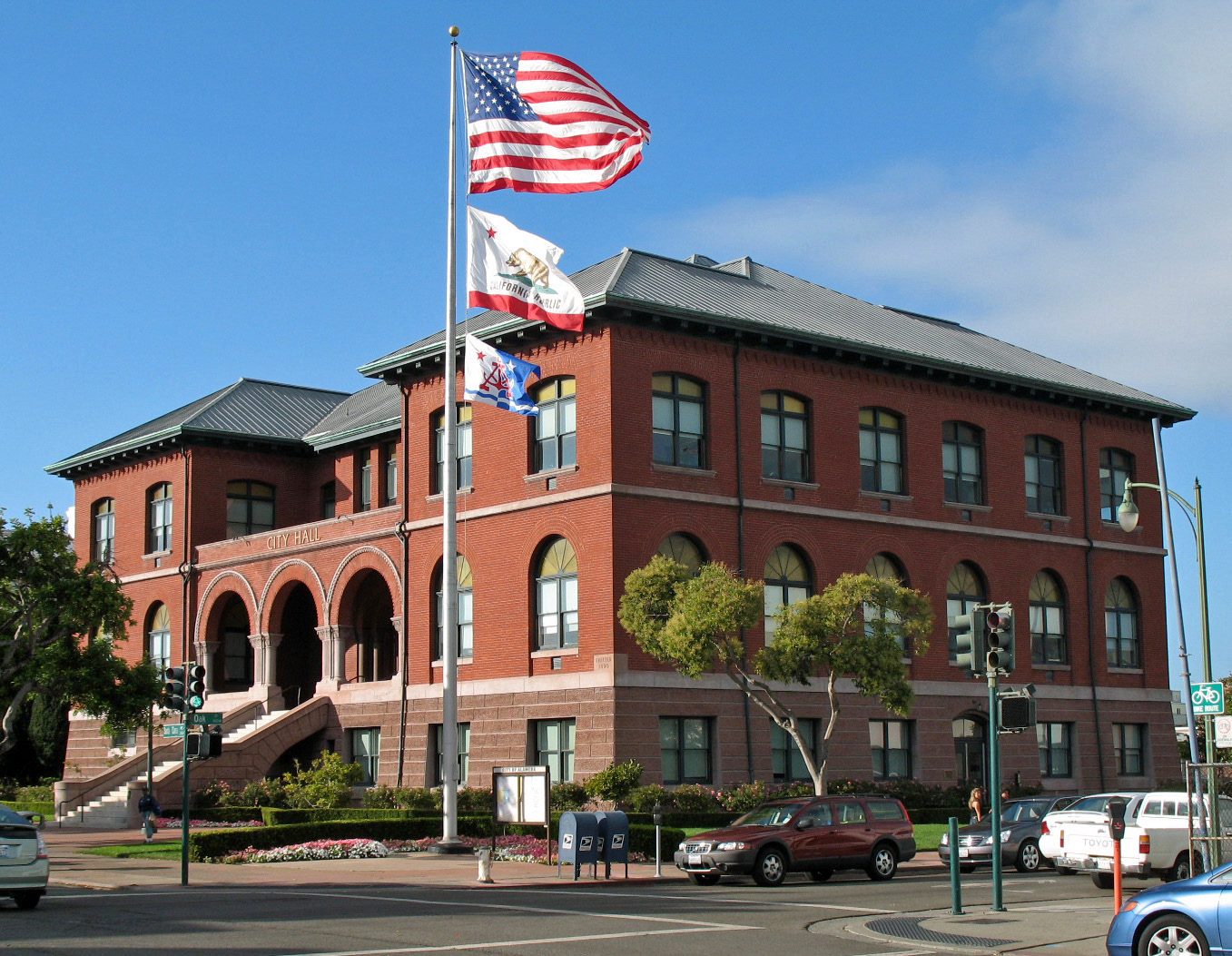 National Register of Historic Places listings in Alameda County, California. Alameda City Hall, Santa Clara Ave. and Oak St., Alameda, California, USA. Photographed 2008-10-04 from the southeast corner of Santa Clara Ave. and Oak St.